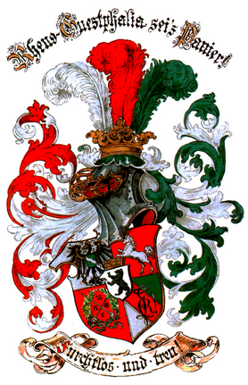 Emplem of Corps Rheno-Guestphalia, a German fraternity